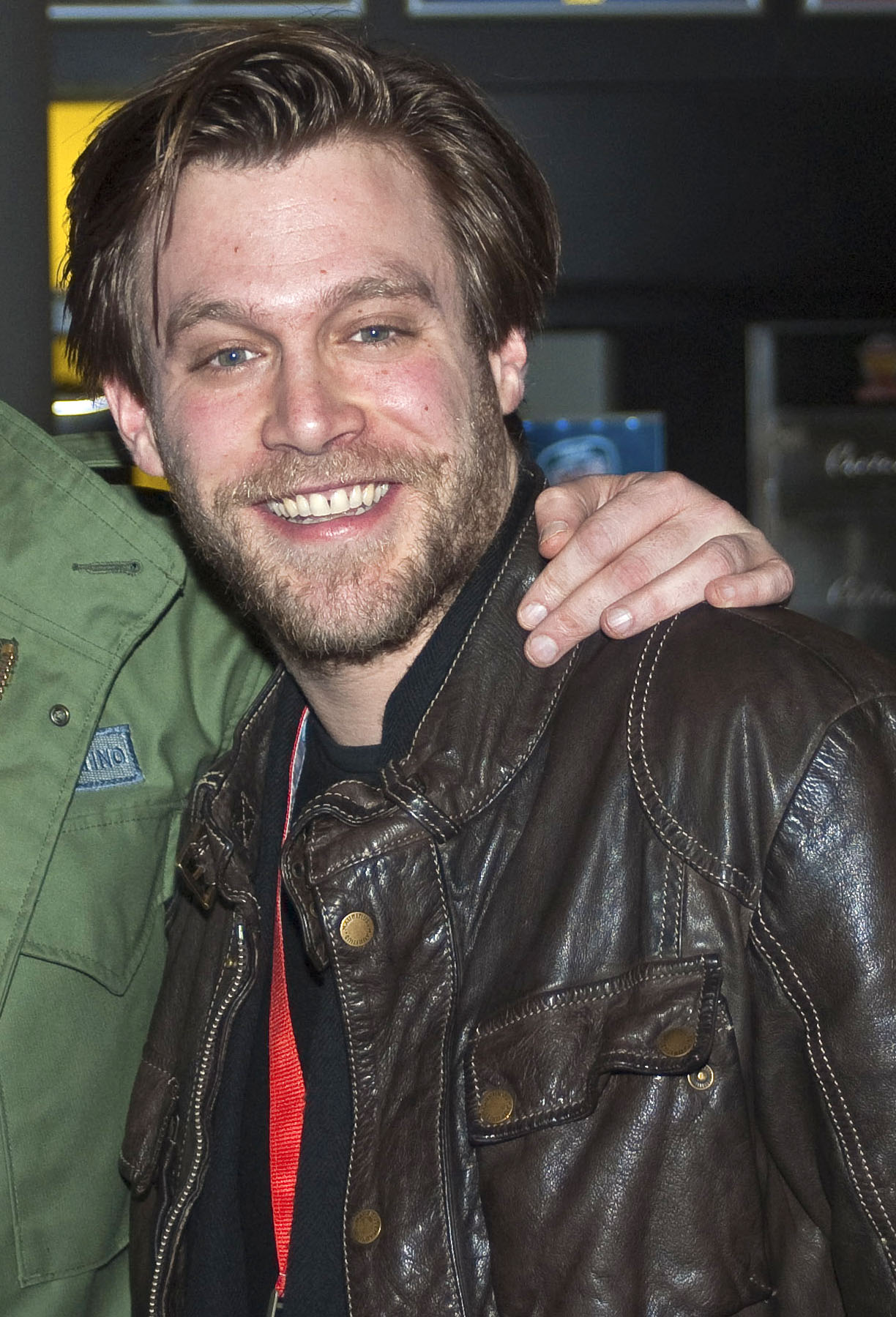 German actor Ken Duken at the 59th Berlin International Film Festival at a Berlin street